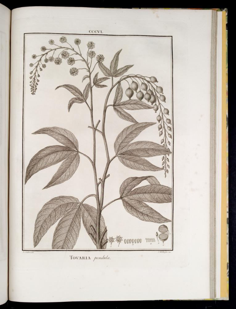 Illustration of Tovaria pendula